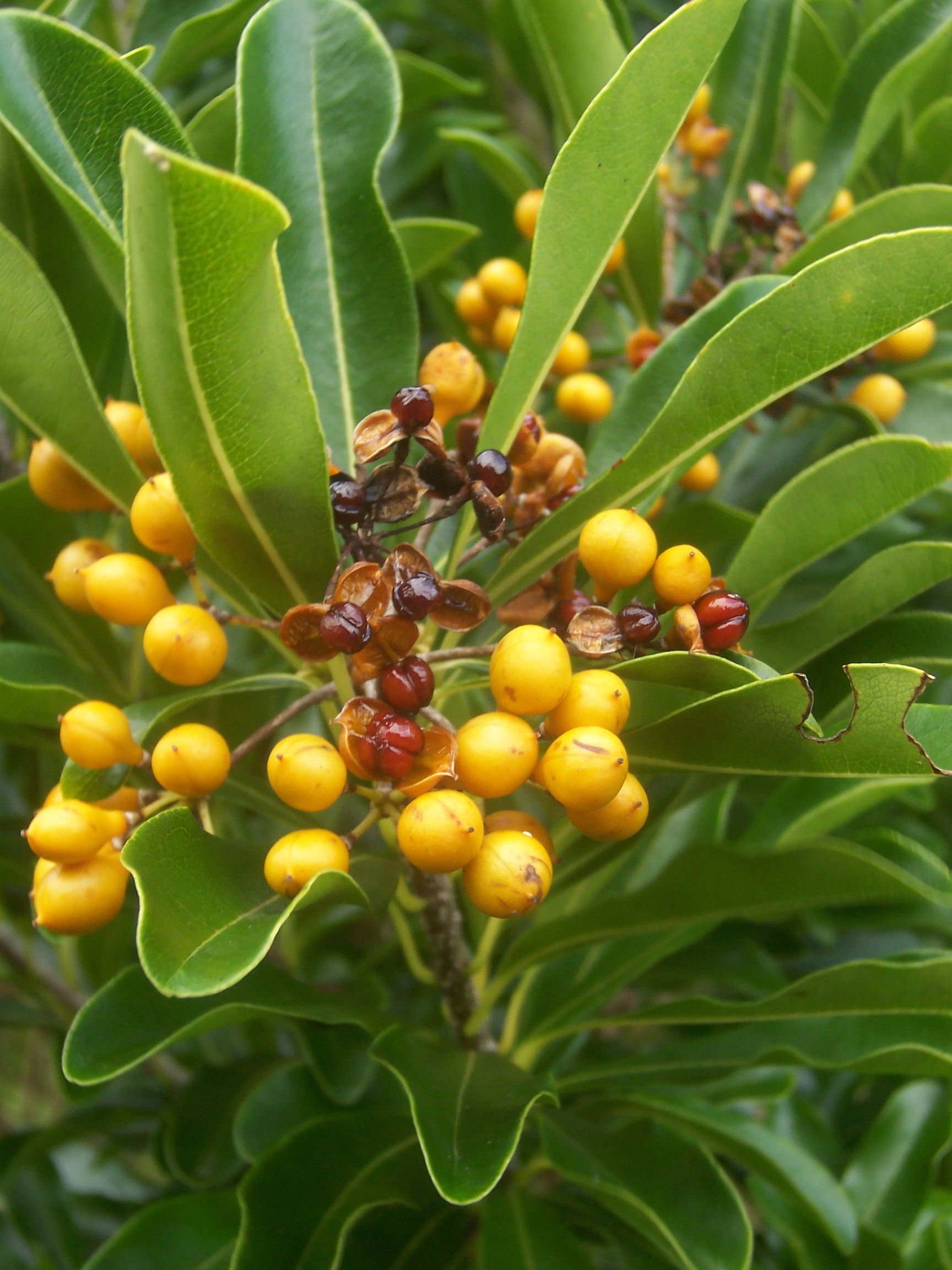 Pittosporum balfourii, an endemic shrub of Rodrigues island, (here planted as part of an ecological restoration project back to indigenous forest in the Nature Reserve of Grande Montagne)